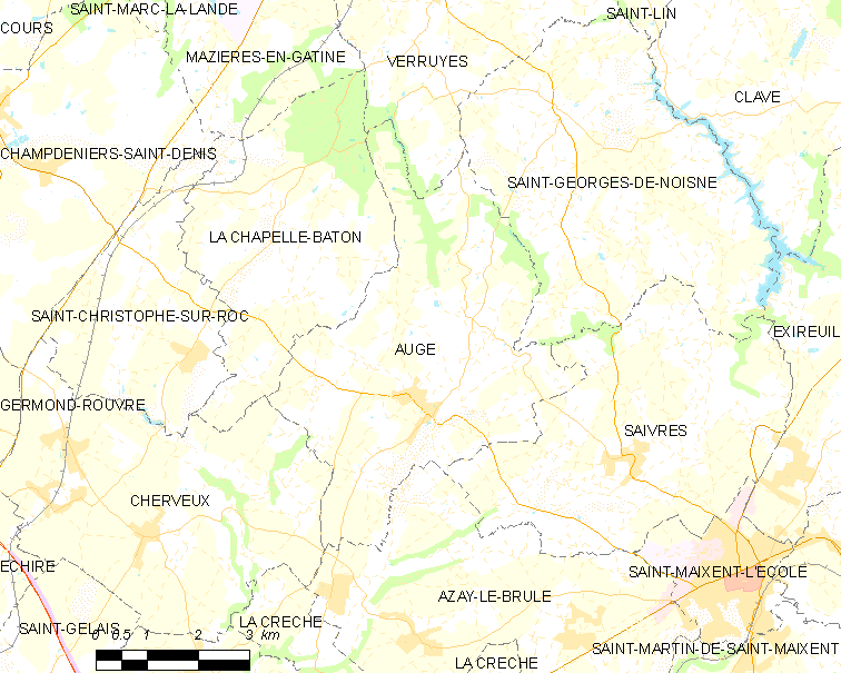 Map of French municipality Augé